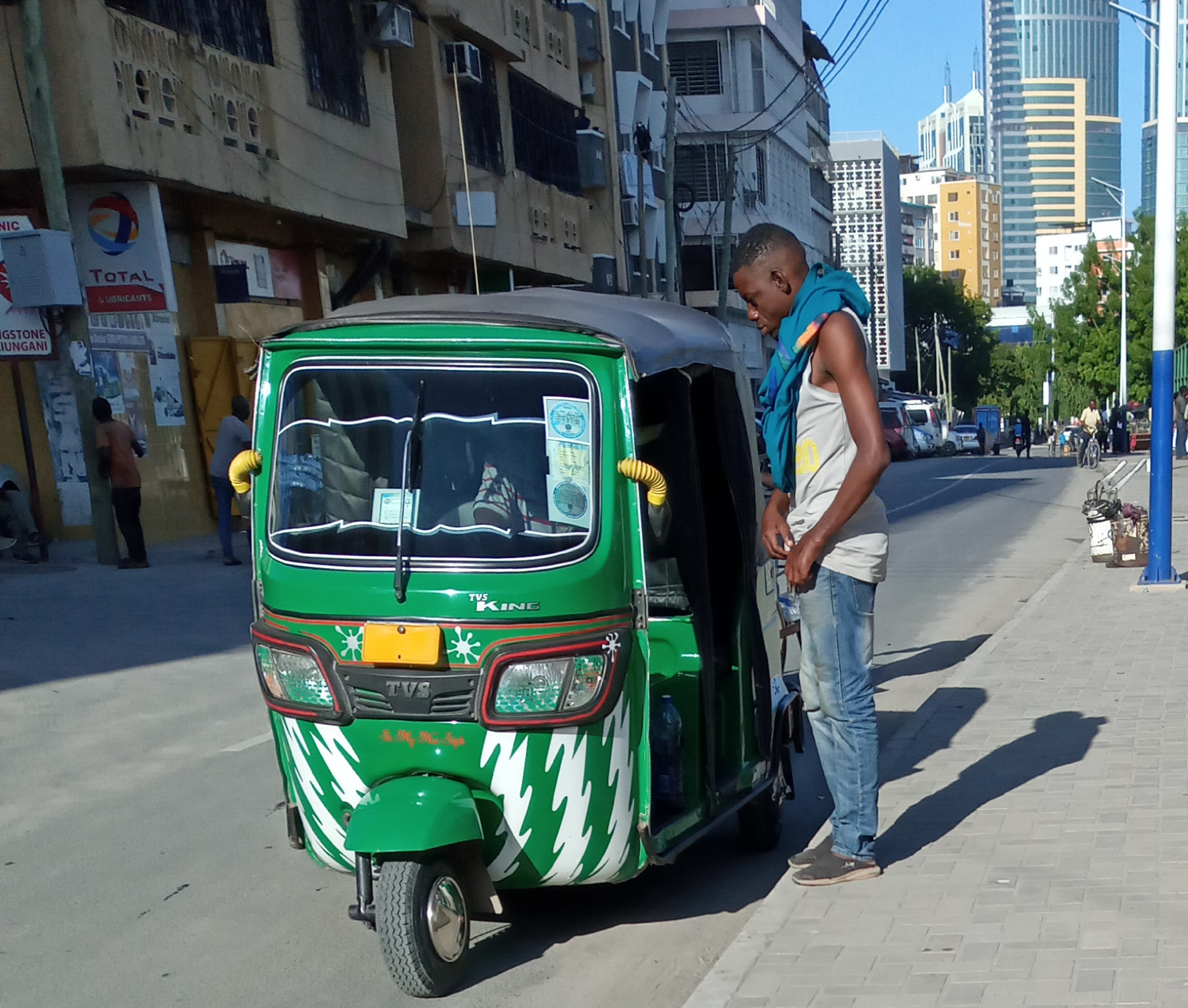 This is an image with the theme "Africa on the Move or Transport" from: Tanzania